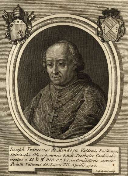 Portrait of José Francisco Miguel António de Mendonça (1725-1808), Cardinal-Patriarch of Lisbon